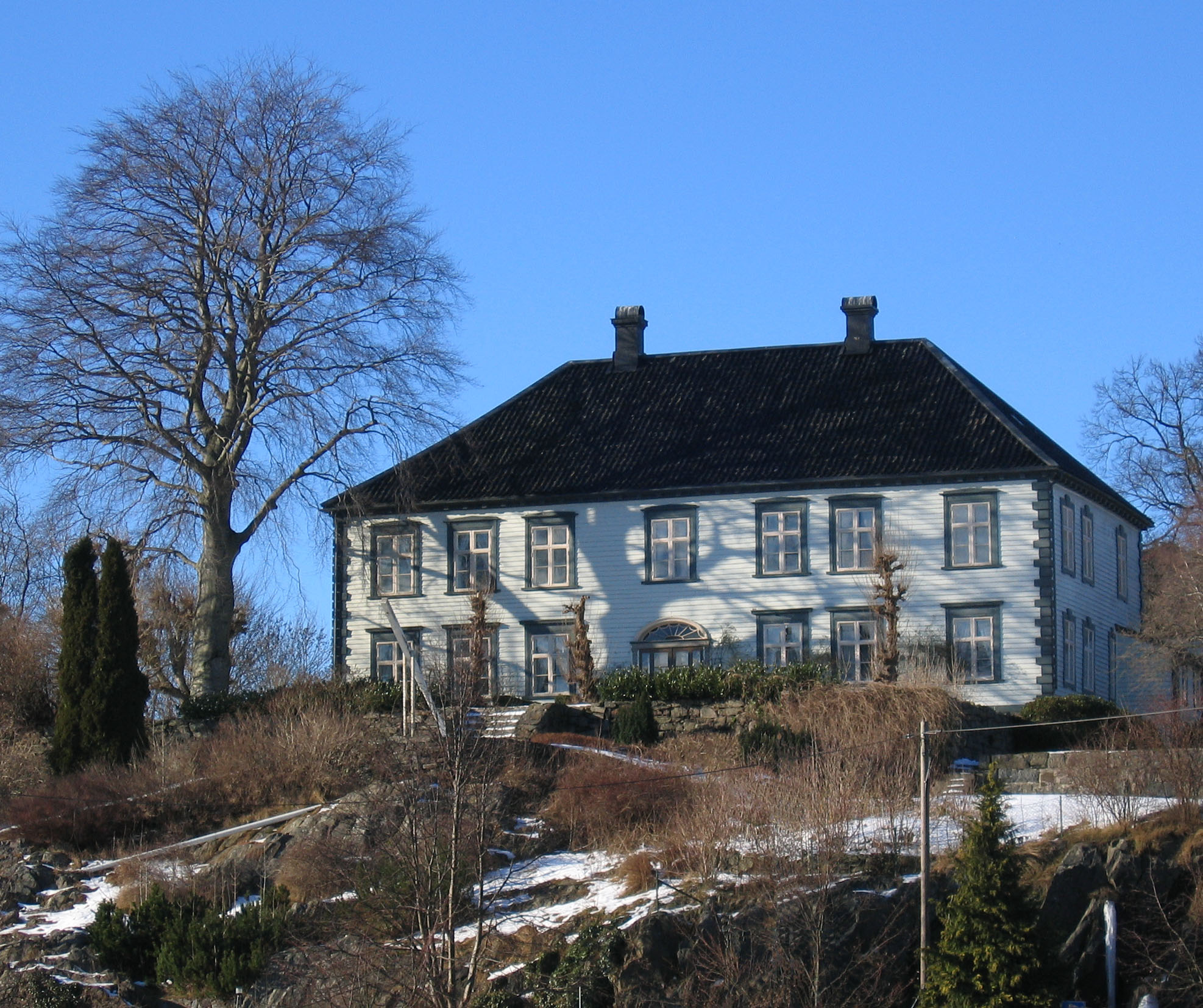 Strømsbu by Arendal, Norway